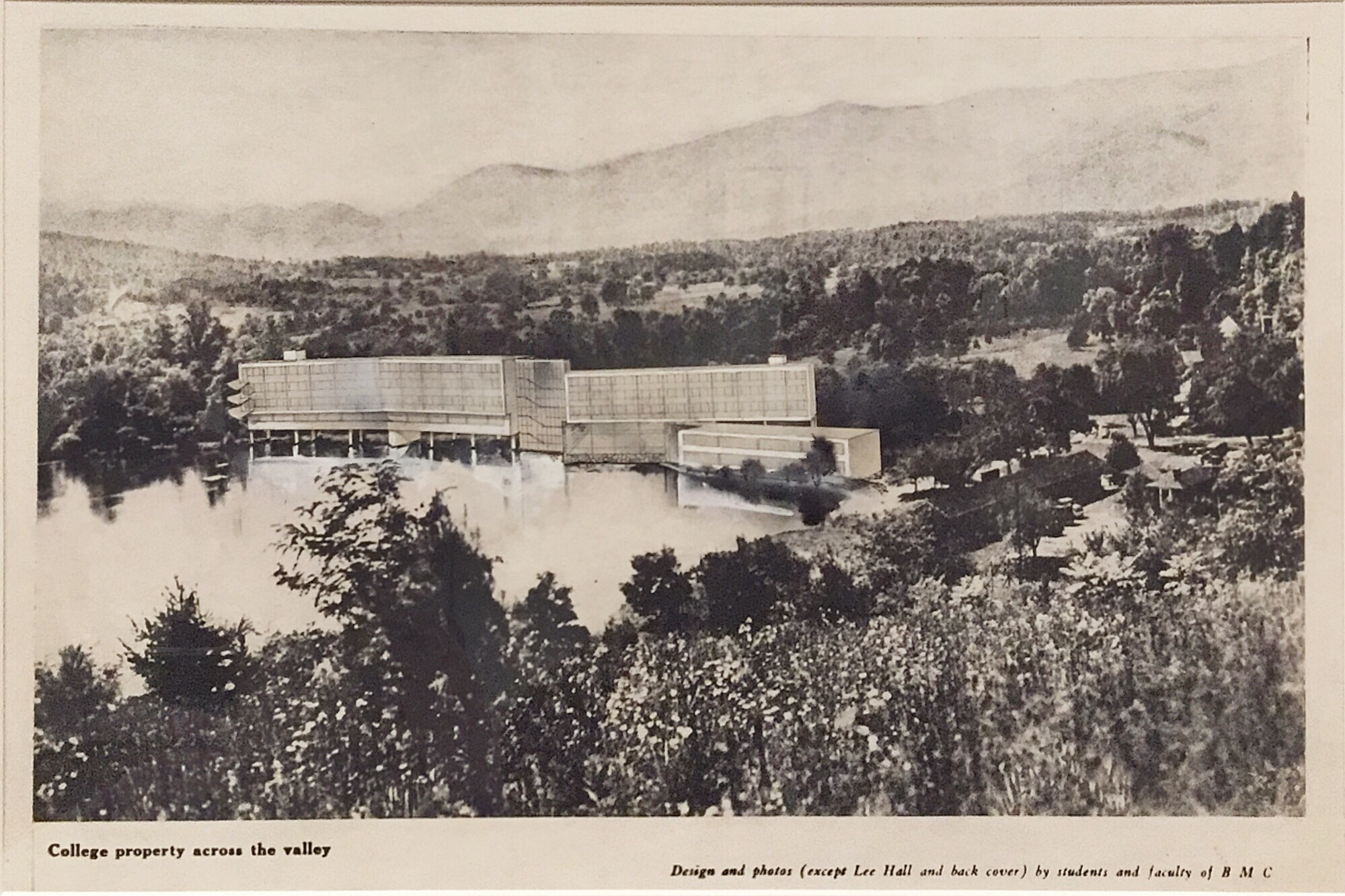 Drawing of planned campus building overlooking Eden Lake at Black Mountain College in Asheville, North Carolina (1938) Architectural design by Marcel Breuer and Walter Gropius (artist anonymous) Photograph with collage, ink, and gouache, on woven paper Scanned from exhibit at Harvard Art Museums